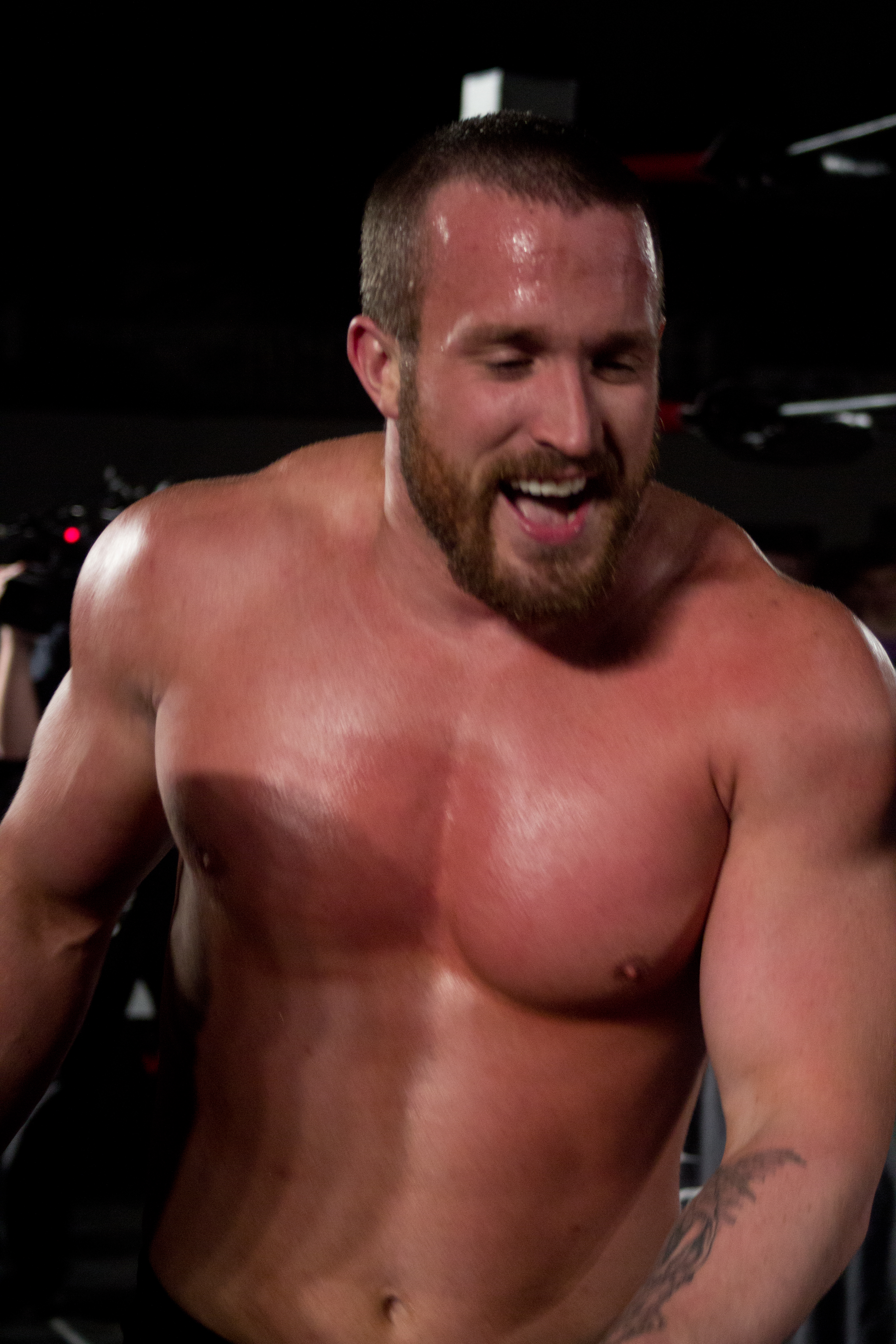 Mike Bennet in January 2014 at ROH television tapings in Nashville, Tennessee.